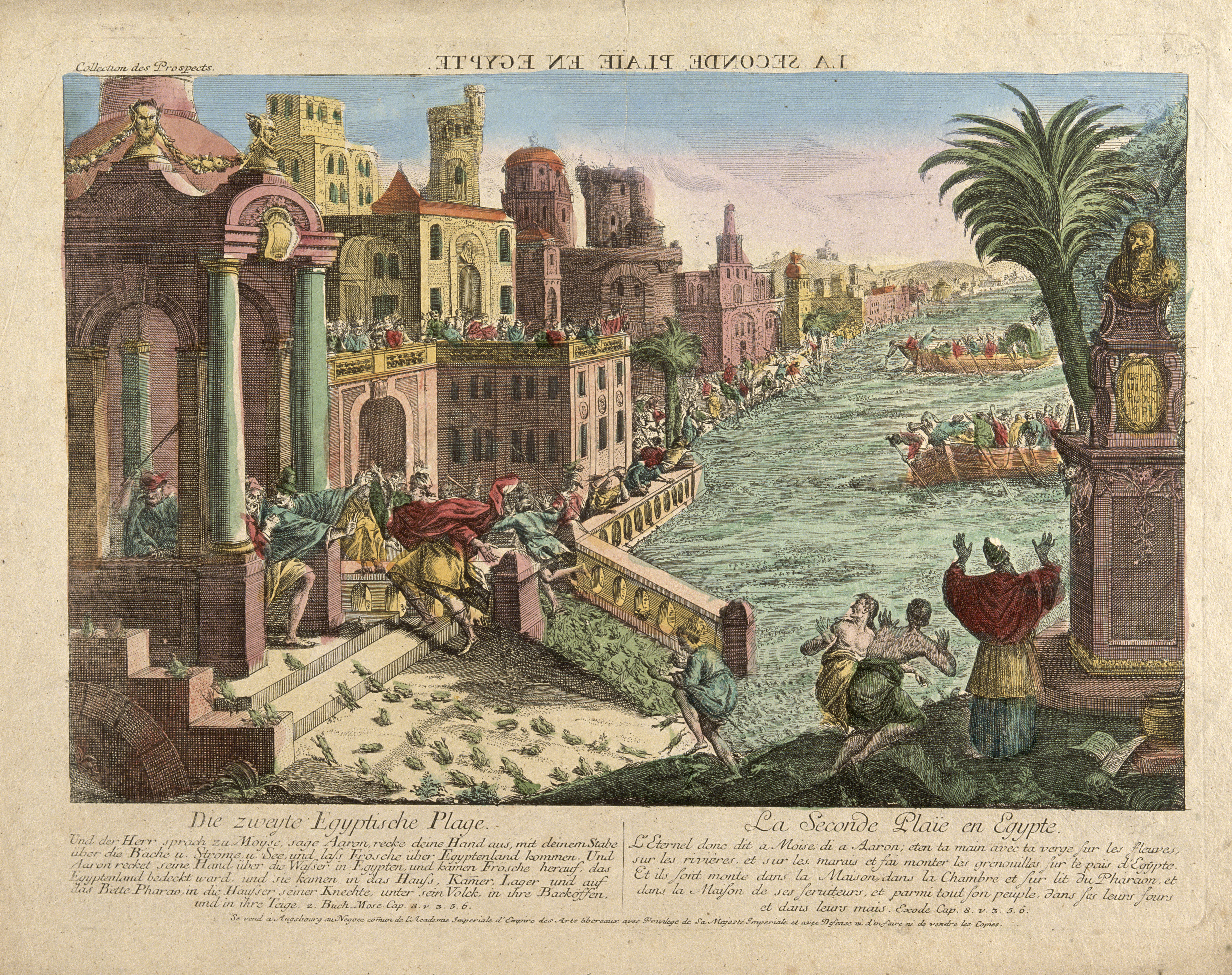 The plague of frogs. Coloured etching. Die zweyte Egyptische Plage. ... 2. Buch Mose cap. 8.v.3, 5, 6. La seconde plaie en Egypte. ... Exode cap. 8.v.3, 5, 6. The lettering above is in French and reversed. Lettering continues with paragraphs describing the particular plague. Iconographic Collections